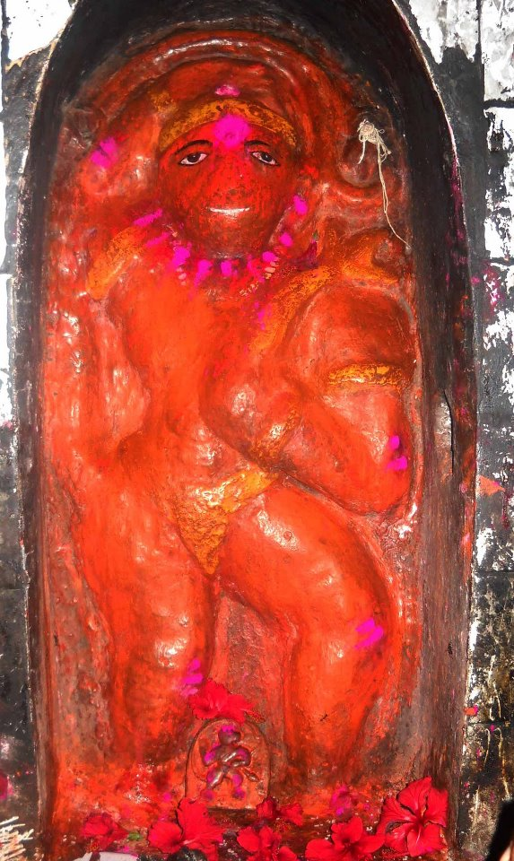 Shinganwadicha maruti